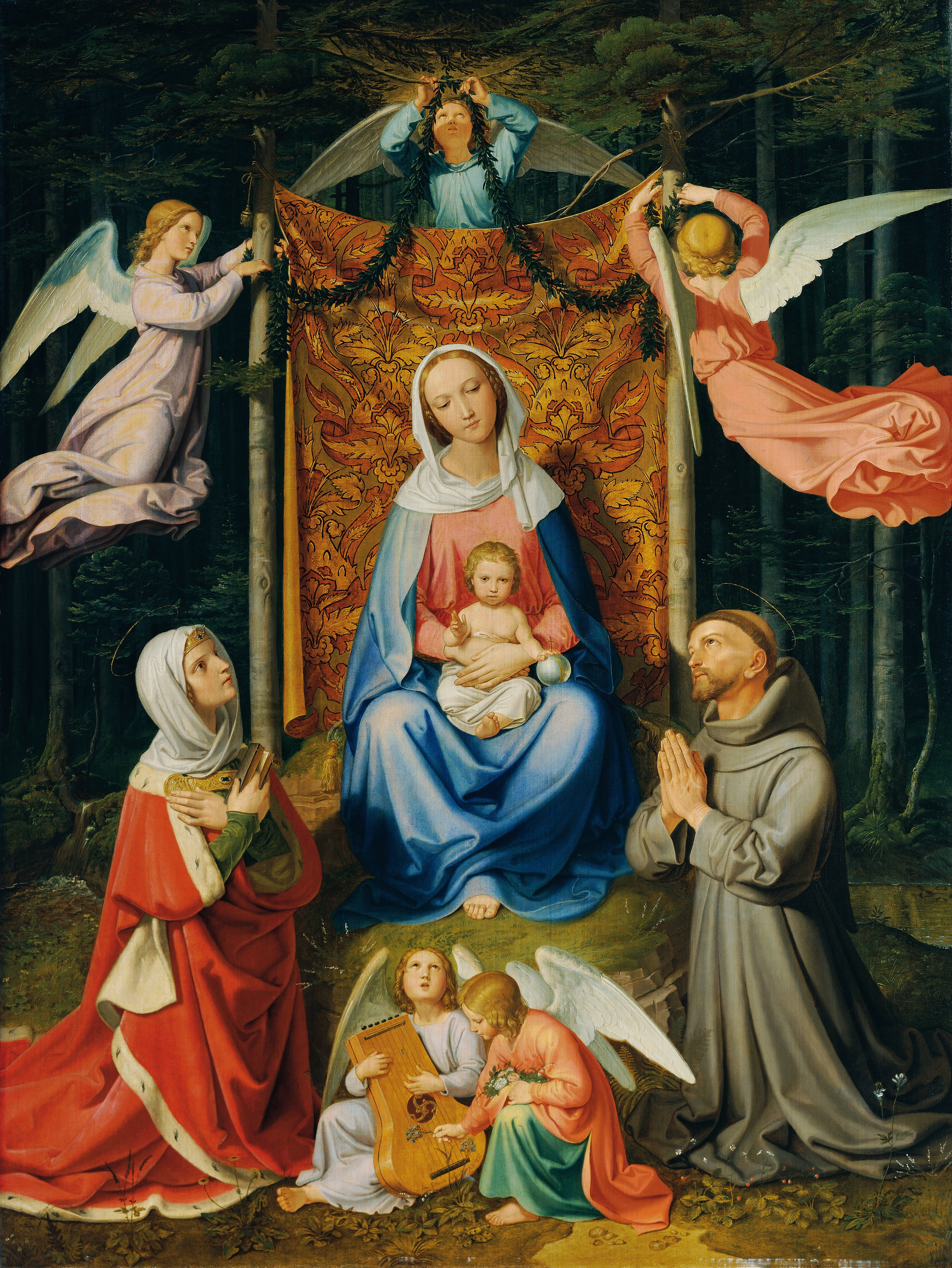 Waldesruh (Madonna with child, Saint Adelheid and Saint Francis) - Joseph von Führich - Google Cultural Institute. 1835. Österreichische Galerie Belvedere. oil on canvas.